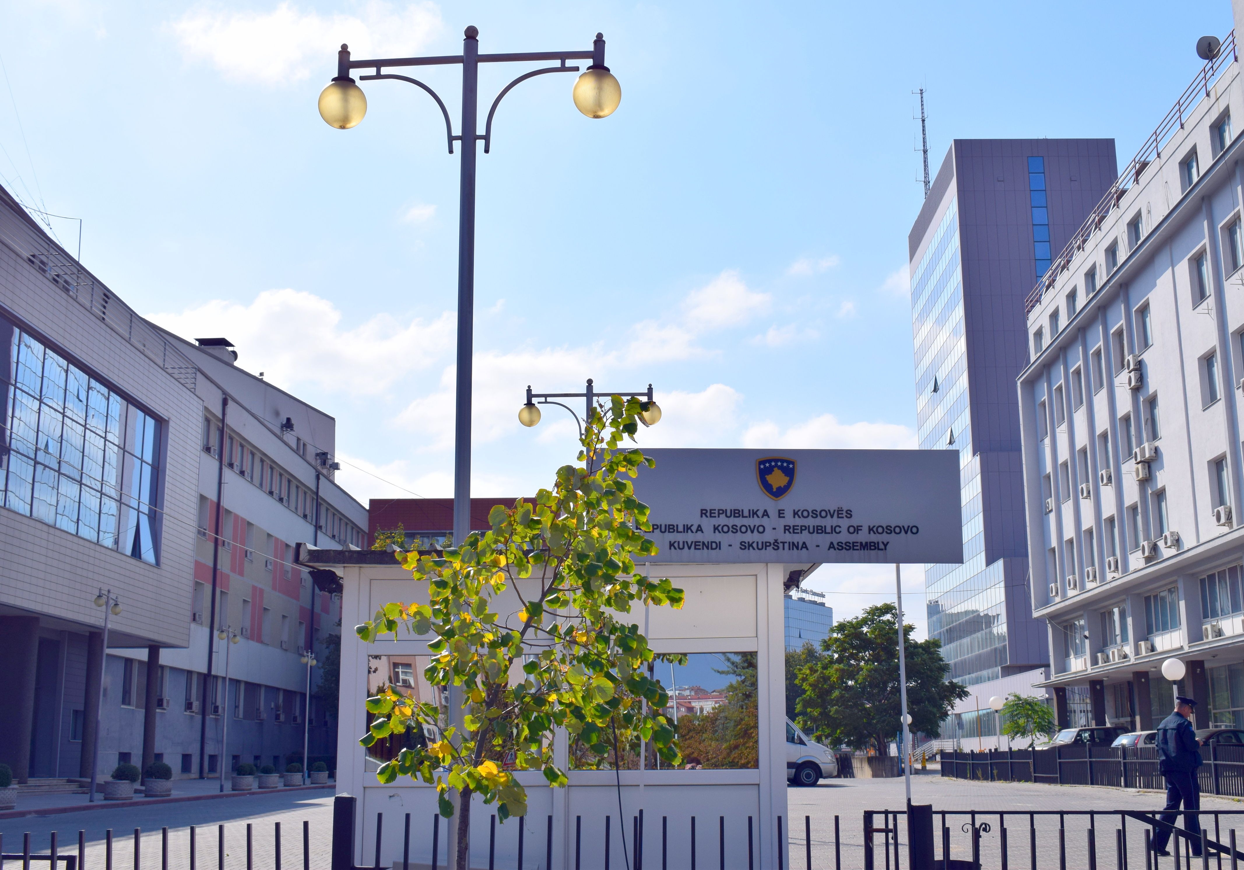 Kosovo Parliament